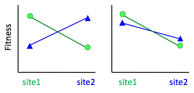 hypothetical results from reciprocal transplants, both of which show local adaptation as defined by local sources having higher fitness than foreign sources at their home site